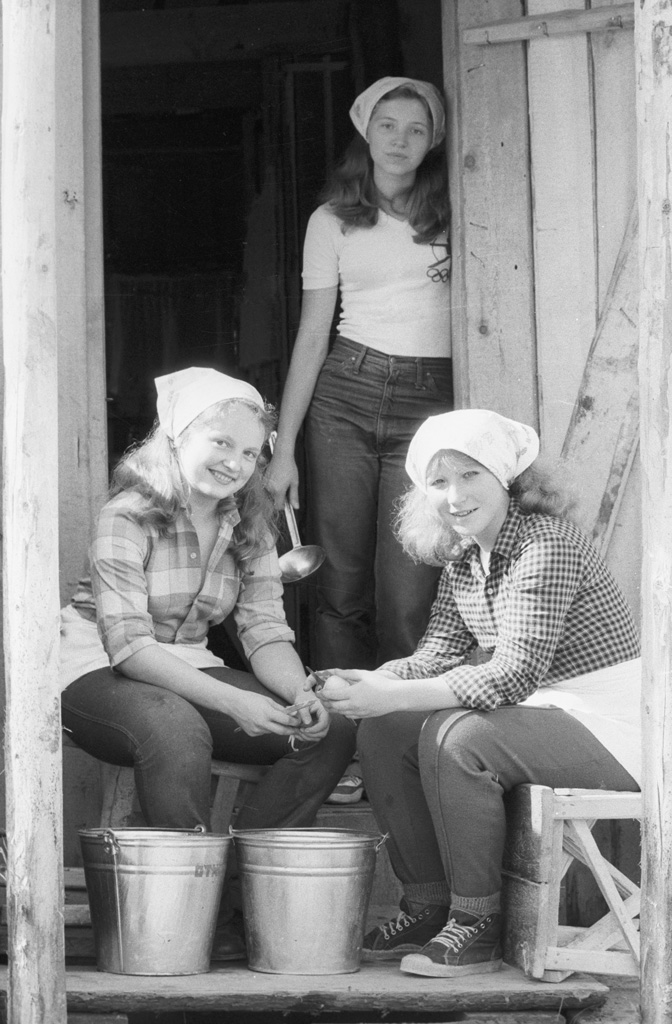 “BAM's western section”. Galina Tikhomirova, Galina Obleukhova and Nina Kulikovskaya, from the physics, mathematics and natural sciences faculty of Patrice Lumumba Friendship University, working as cooks in the Rovesnik student building team in Ust Kut on the Baikal-Amur Railroad's western section.